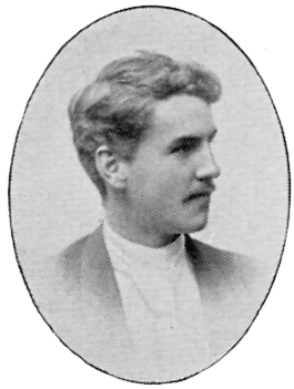 Image scanned from the book "Svenskt Porträttgalleri XX - Arkitekter, Bildhuggare, Målare m.fl. " ("Swedish Portrait Gallery XX - Architects, Sculptors, Painters, ") published 1901